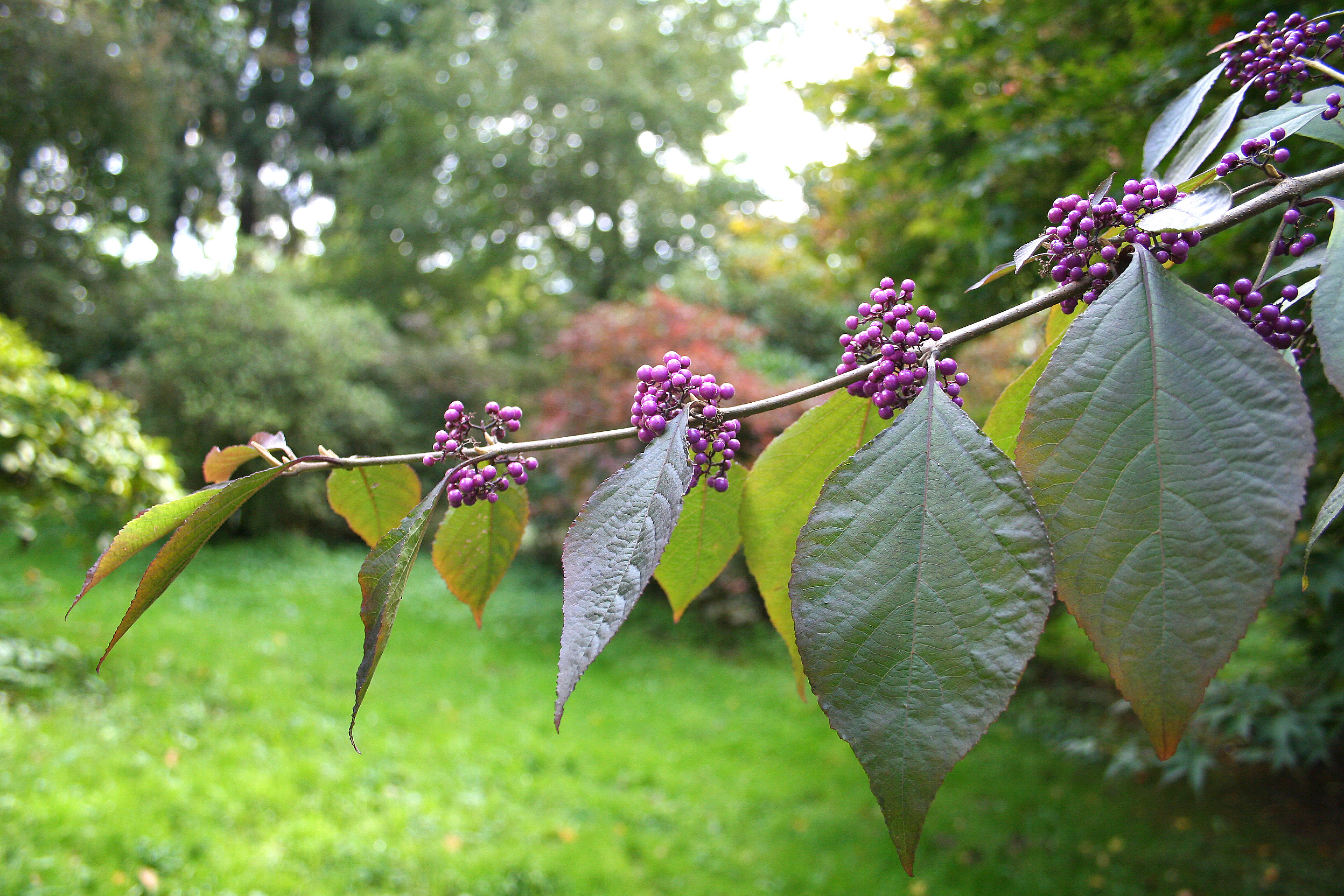 Bodinier's Beautyberry Callicarpa bodinieri sub. ‘Profusion’ leaves and fruits Planting date : 1987 Precise location : Arboretum Robert Lenoir (S48A - 2108) - Rendeux (Belgium). Walon: Fouyes èt fruts di l’ Aube a bobones Callicarpa bodinieri var. ‘Profusion’ Date do plantis’ : 1987 Place rècta : Arboretum Robert Lenoir (S48A - 2108) - Rindeu (Bèljike).